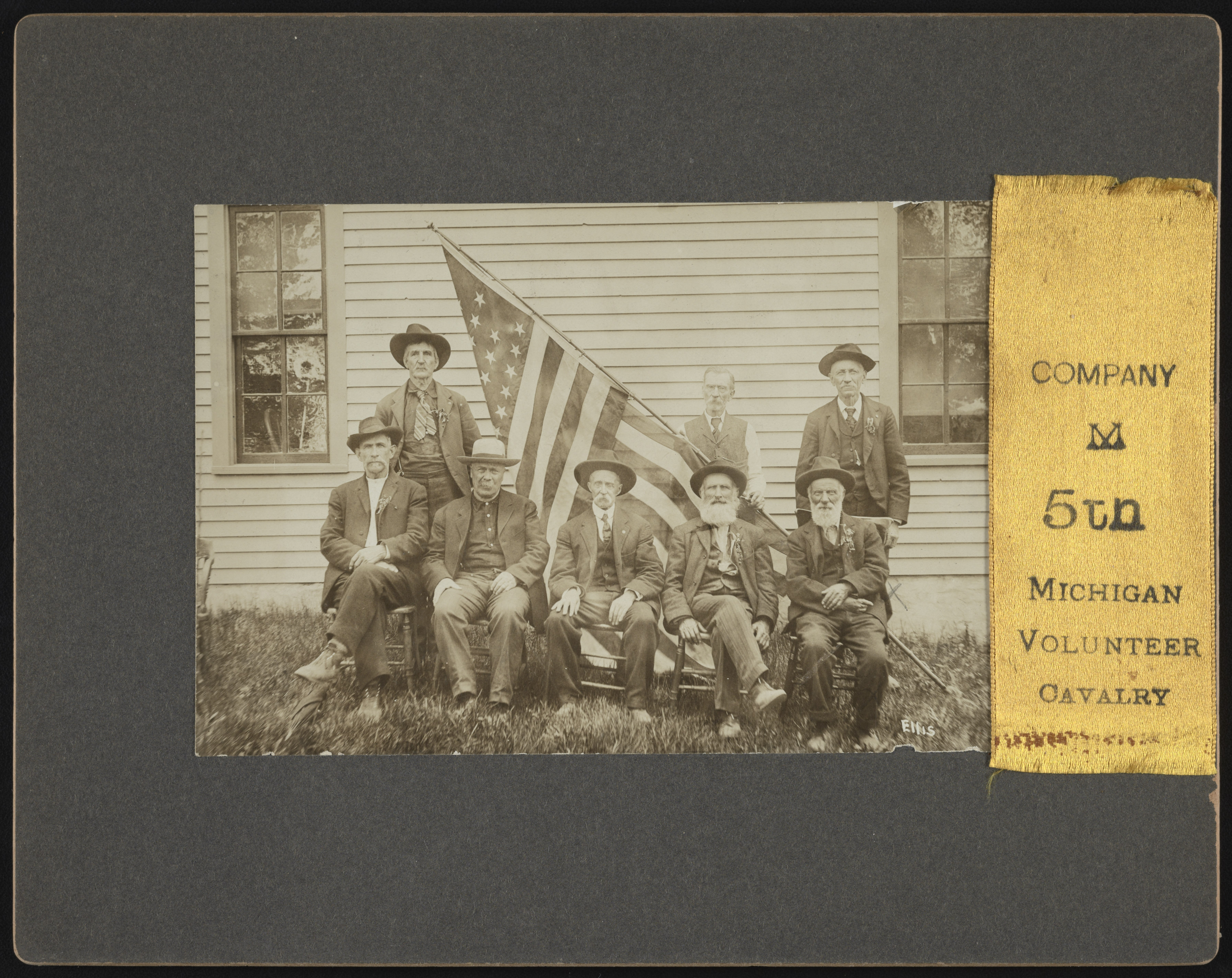 Title: Reunion of Co. M, 5th Michigan Cavalry Regiment veterans, in uniforms with American flag Abstract/medium: 1 photograph : gelatin silver print ; sheet 11 x 15 cm, mount 18 x 23 cm.